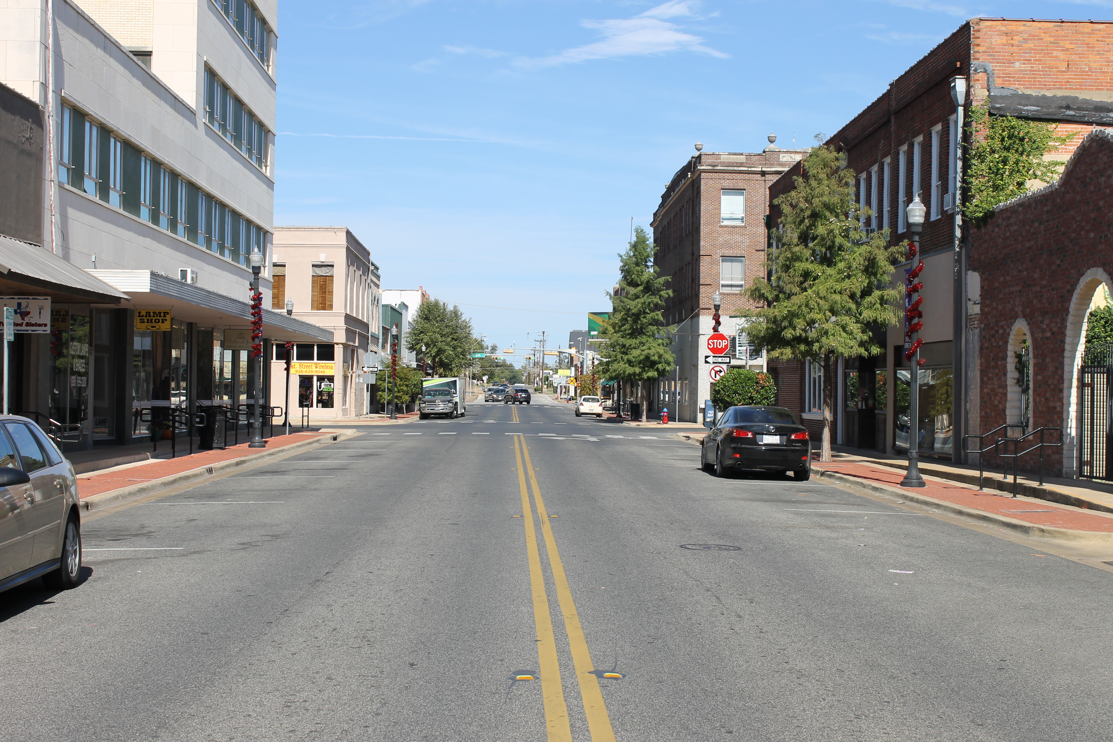 A portion of downtown Lufkin, TX